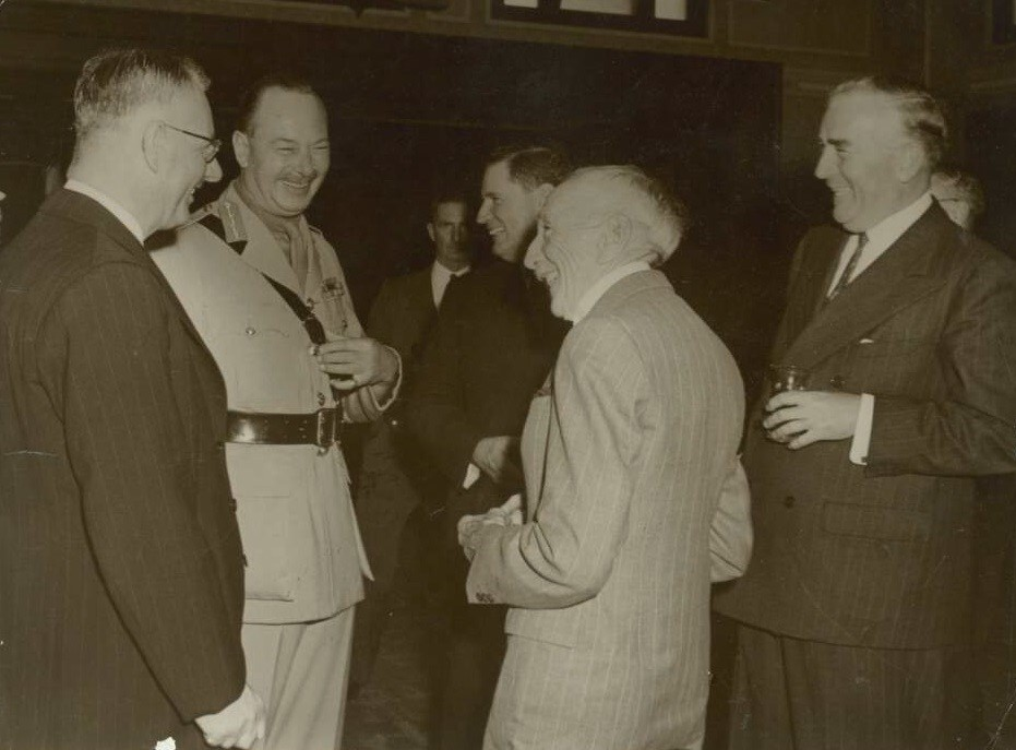 From left to right: Prime Minister John Curtin, Governor General Prince Henry, Duke of Gloucester, Former Prime Minister Arthur Fadden, Former Prime Minister Billy Hughes, Former Prime Minister Robert Menzies. Gathered for Prince Henry's first reception as Governor General.